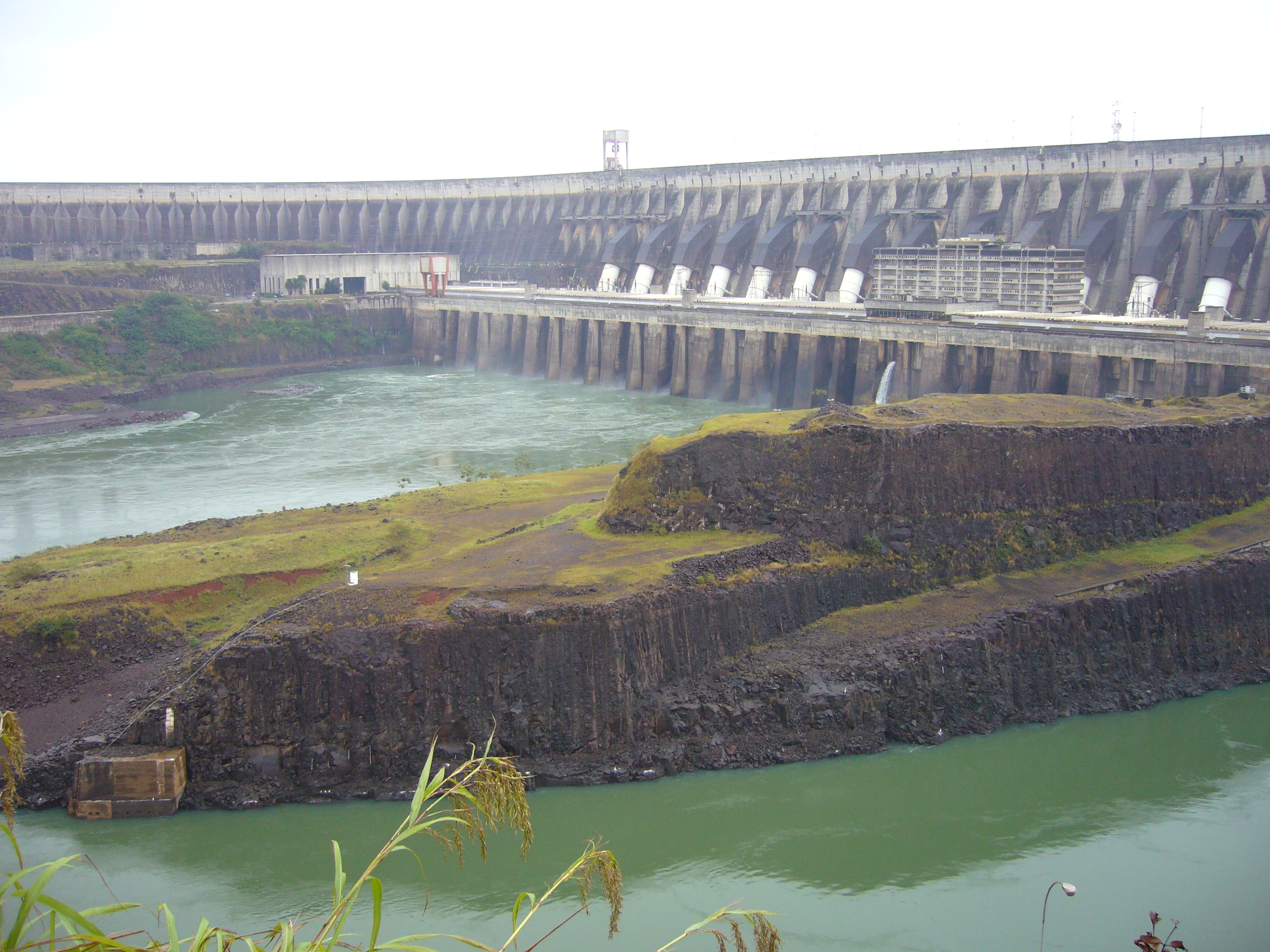 he Itaipu dam in Brasil, photgraphed July 2007